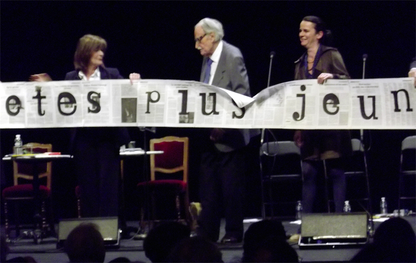 110426 Odéon-théâtre de l′Europe Claire Nadeau, Maurice Nadeau, Tiphaine Samoyault ; recording France culture of the “soirée Maurice Nadeau, le chemin de vie” brodcasted on the 21st May 2011 ; 72dpi, 30cm × 19cm.